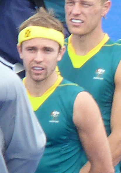 2012 Olympic field hockey team Australia at the Riverbank Arena before the game against Spain